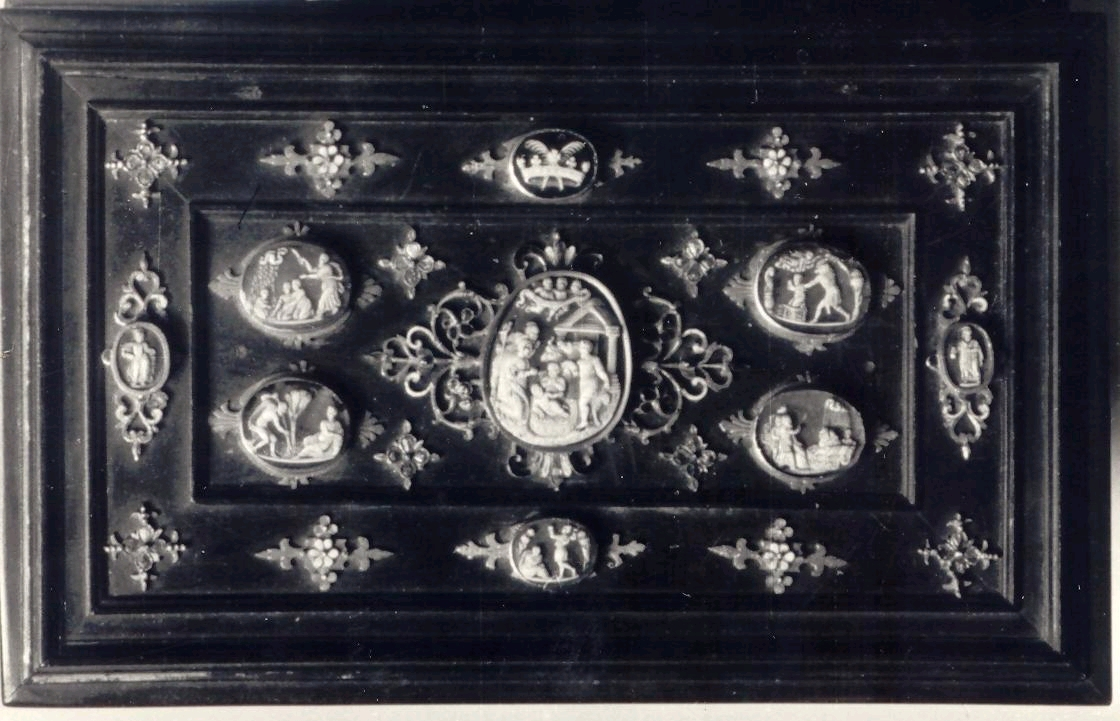 Queen Bona's casket (2 items, sandalwood, gems), from the Royal Casket. The reliquary was destroyed by the Germans during the World War II.